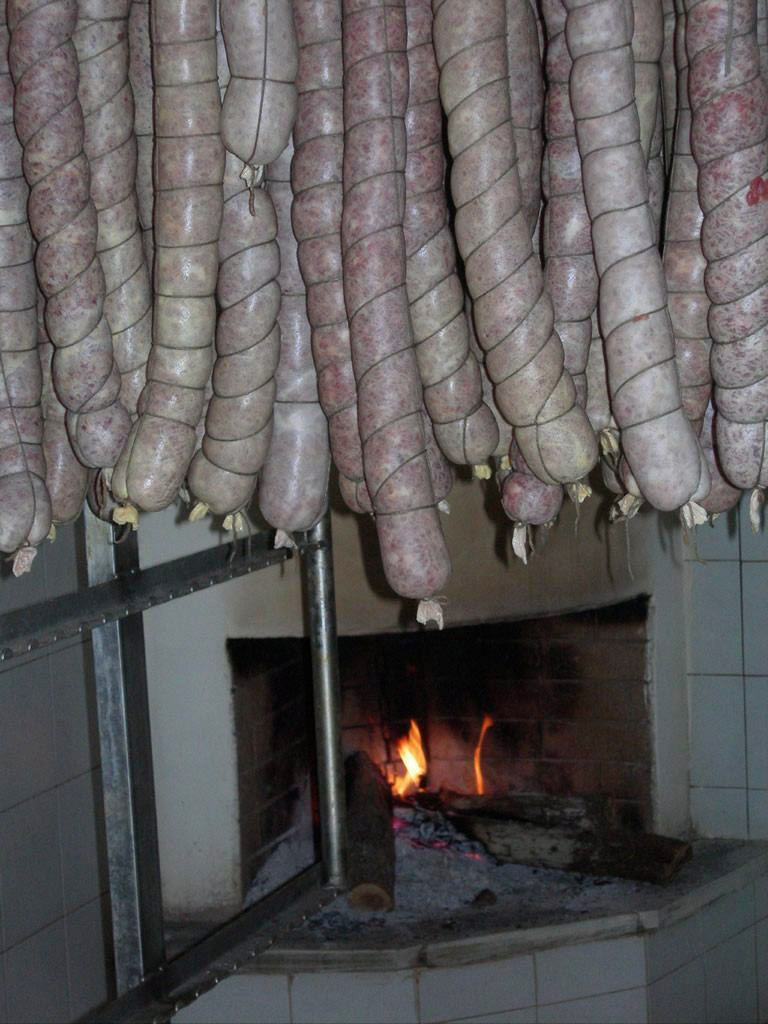 Corallina di Norcia maturation - Italy.